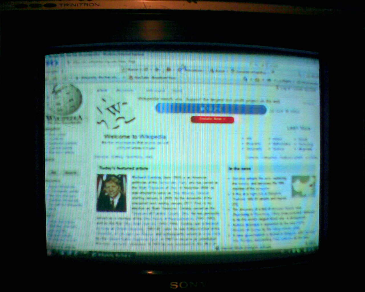 Wikipedia seen on an old TV, using a RF Modulator connected to a NVIDIA card.